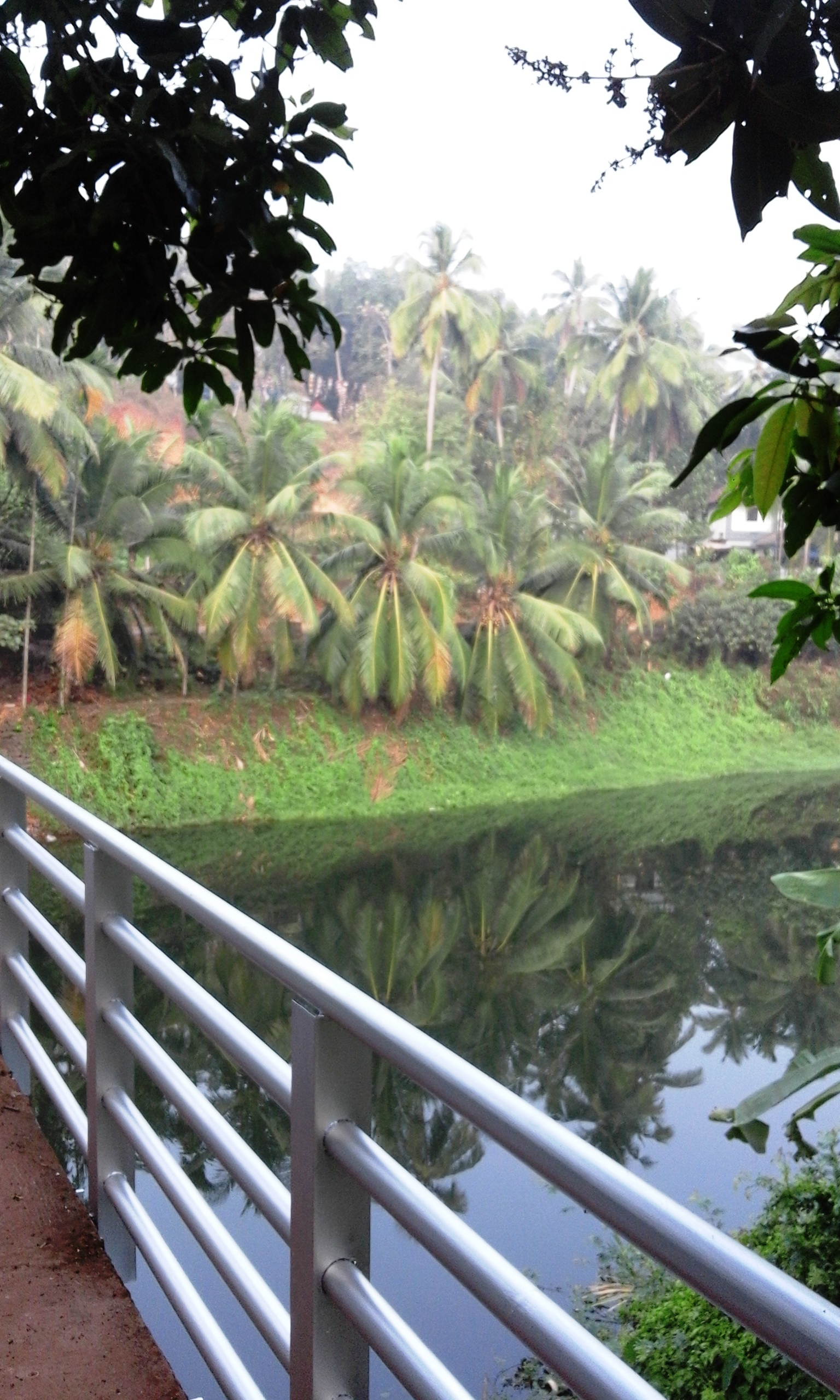 Kozhikode District, Kerala province, India.